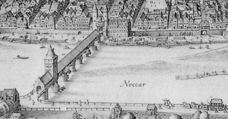 Matthäus Merian: Panorama of Heidelberg, 1620. Cropped version.